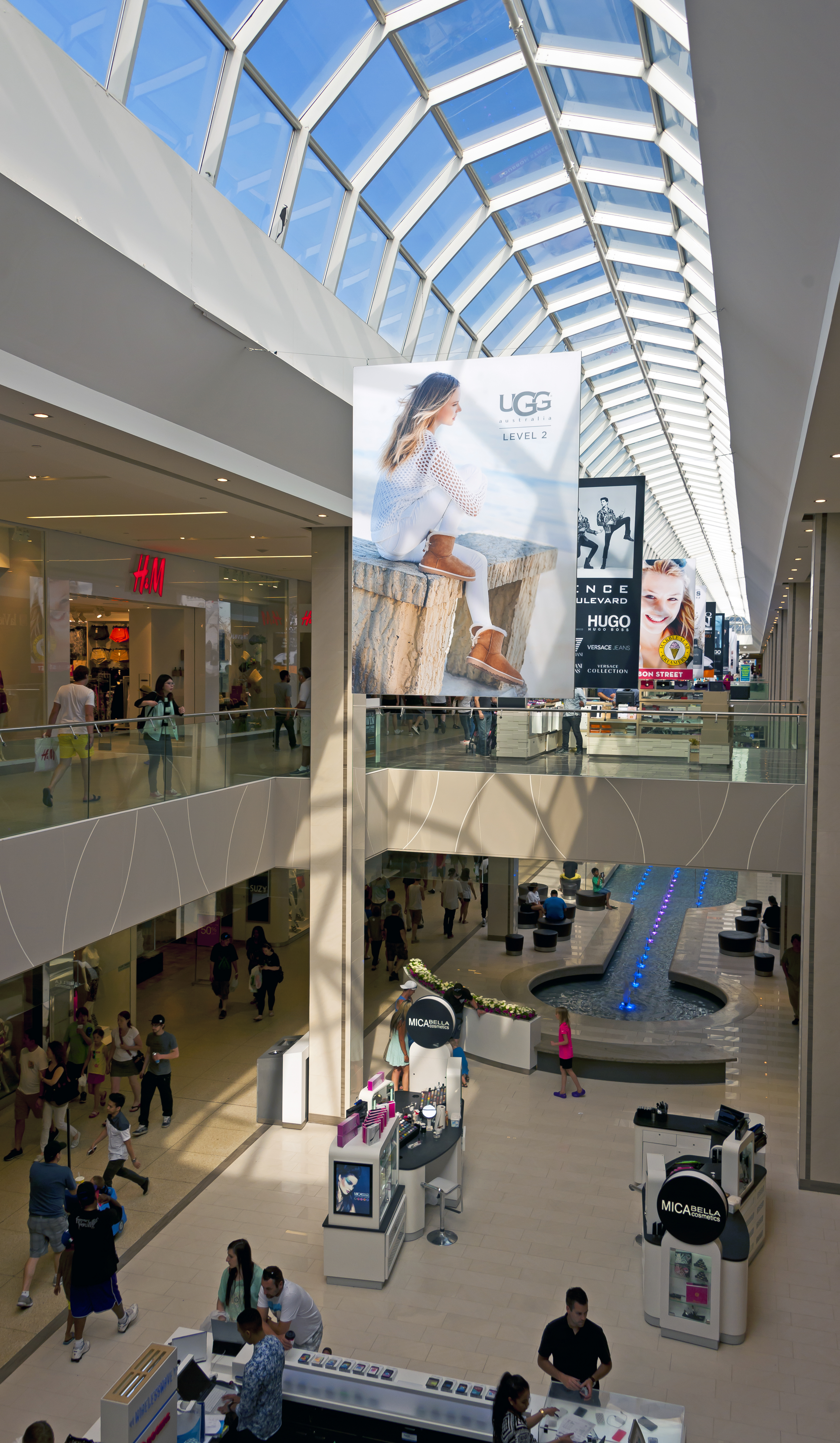 A view down one of the wings of the West Edmonton Mall